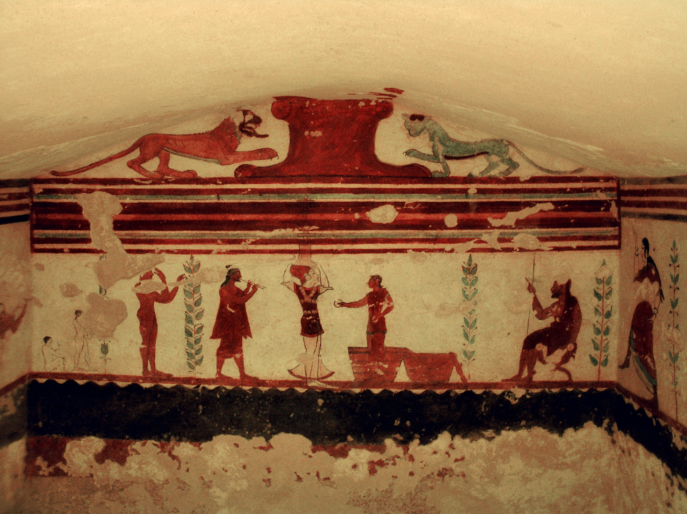 Etruscan wallpainting in the "Tomb of the Jugglers" of the etruscan necropolis of Tarquinia, Italy